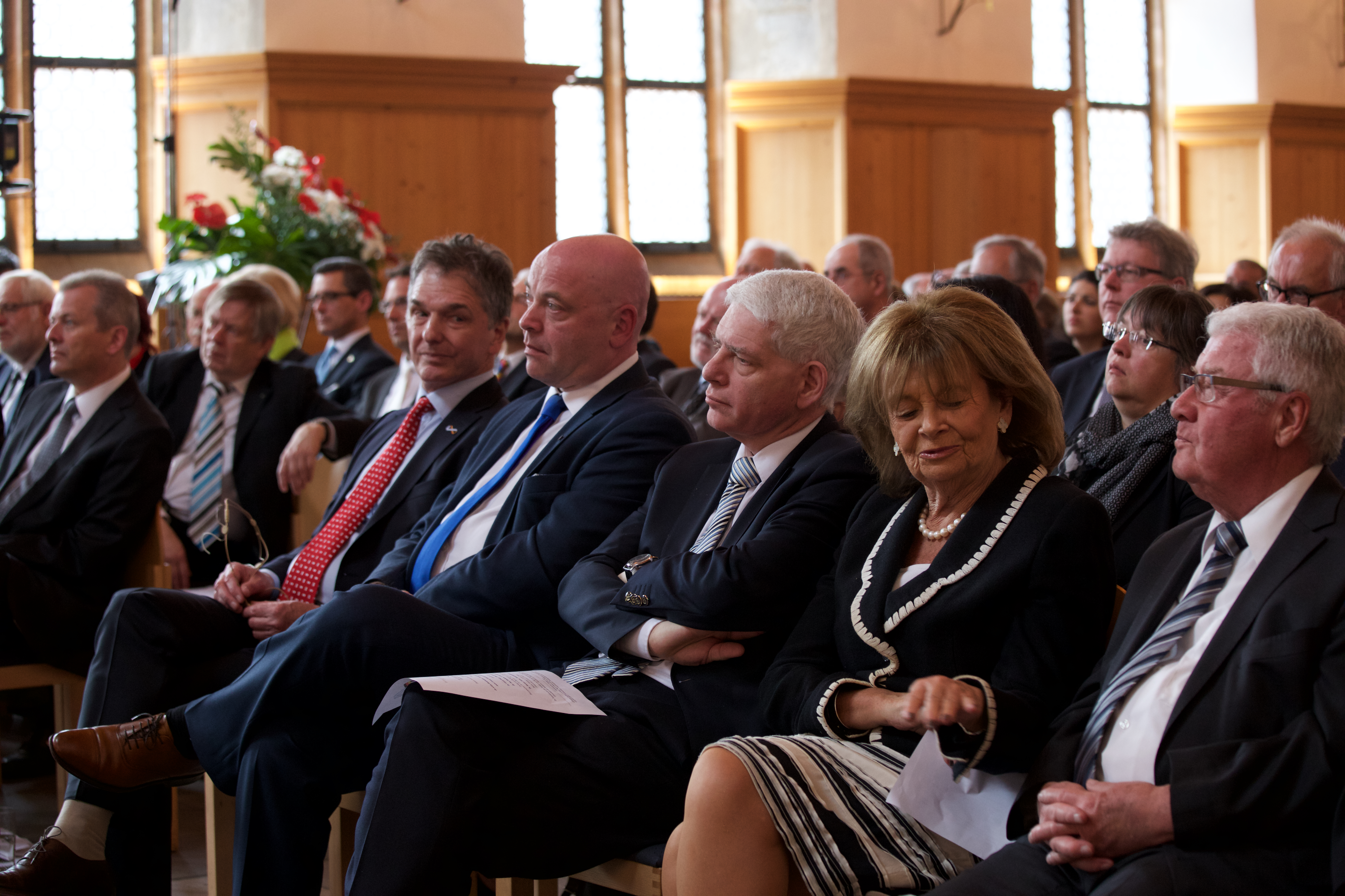 President of the Central Council of Jews in Germany Dr. Josef Schuster (center, white hair); lord mayor of Nuremberg Dr. Ulrich Maly (far left), Dr. Charlotte Knobloch (right)